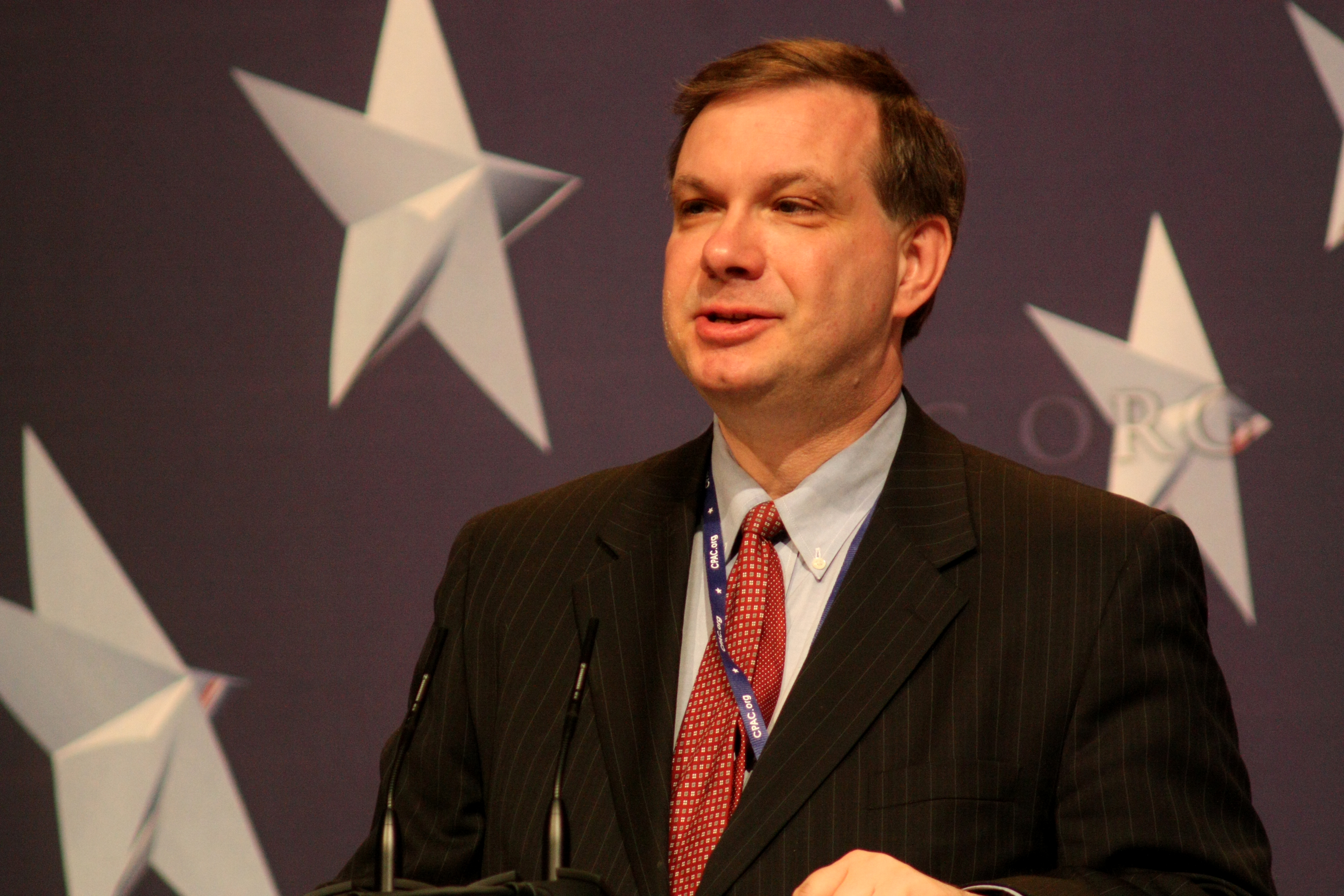 Wall Street Journal columnist John Fund speaking at CPAC.